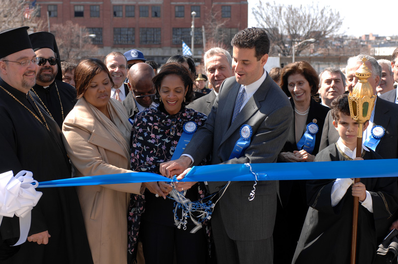 Congressman John Sarbanes serves as Grand Marshall of the 2007 Baltimore Greek Independence Day Parade, and cuts the parade ribbon with then-Baltimore Mayor Sheila Dixon.